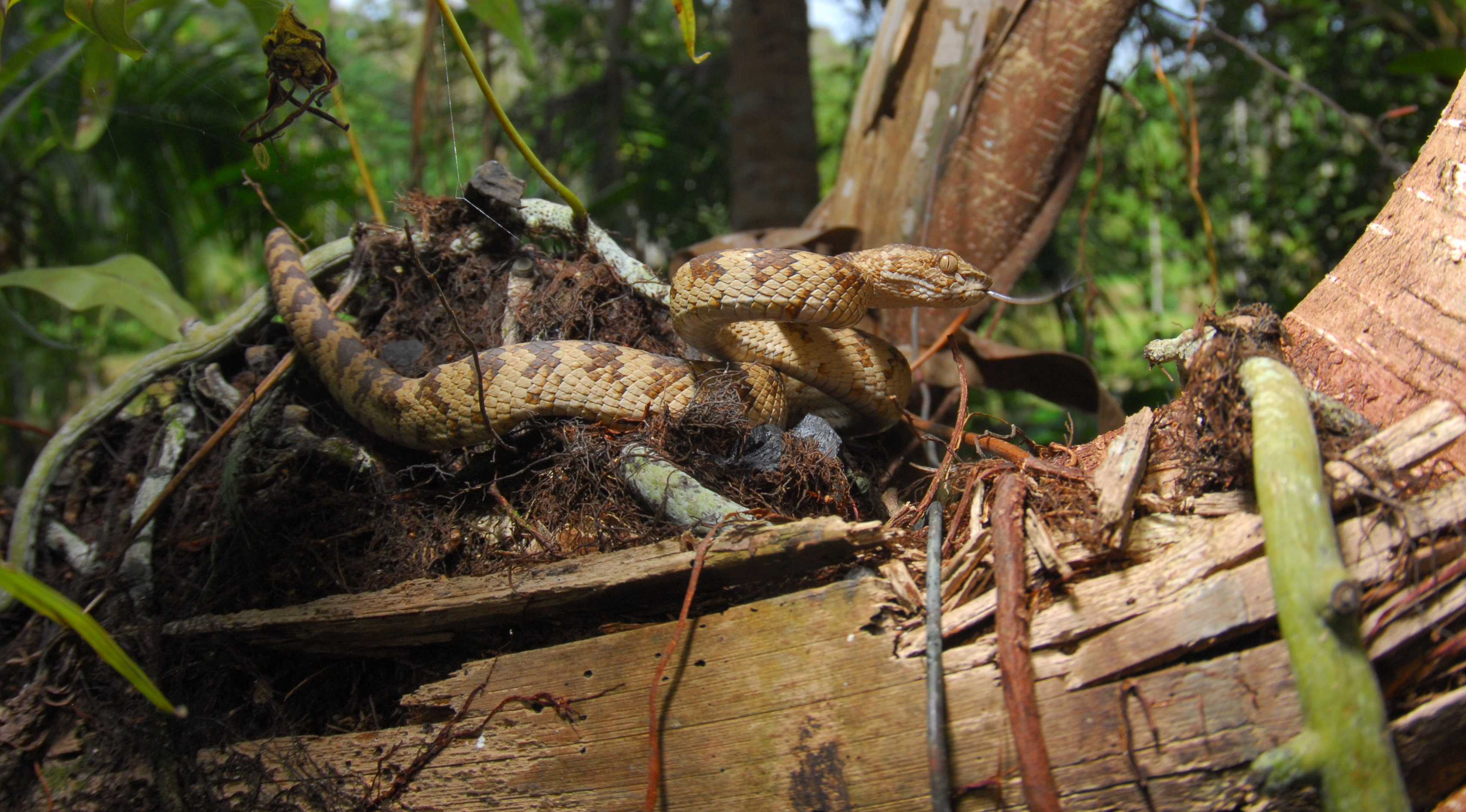 A juvenile pit viper endemic to the Andaman islands